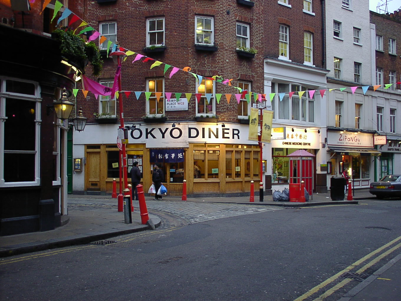 The front of Tokyo Diner, seen from Lisle Street, taken in 2005.